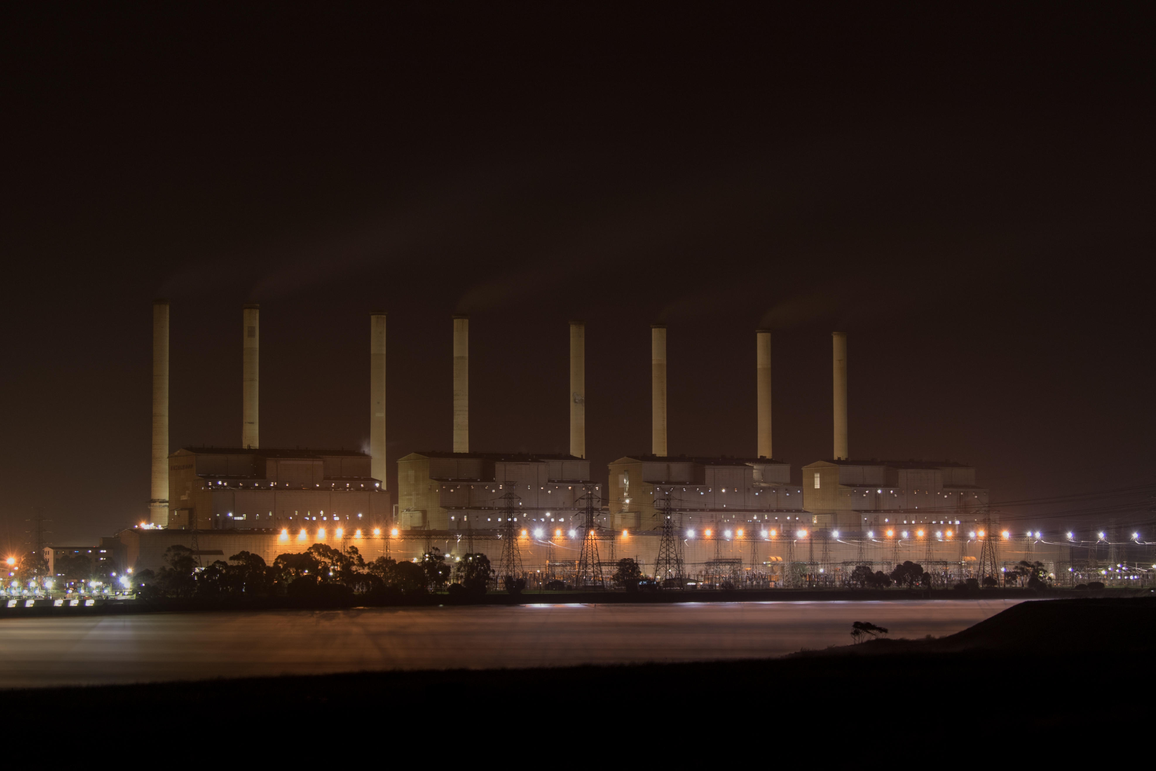 The Hazelwood Power Station (Victoria), taken at night. HWPS substation in front.